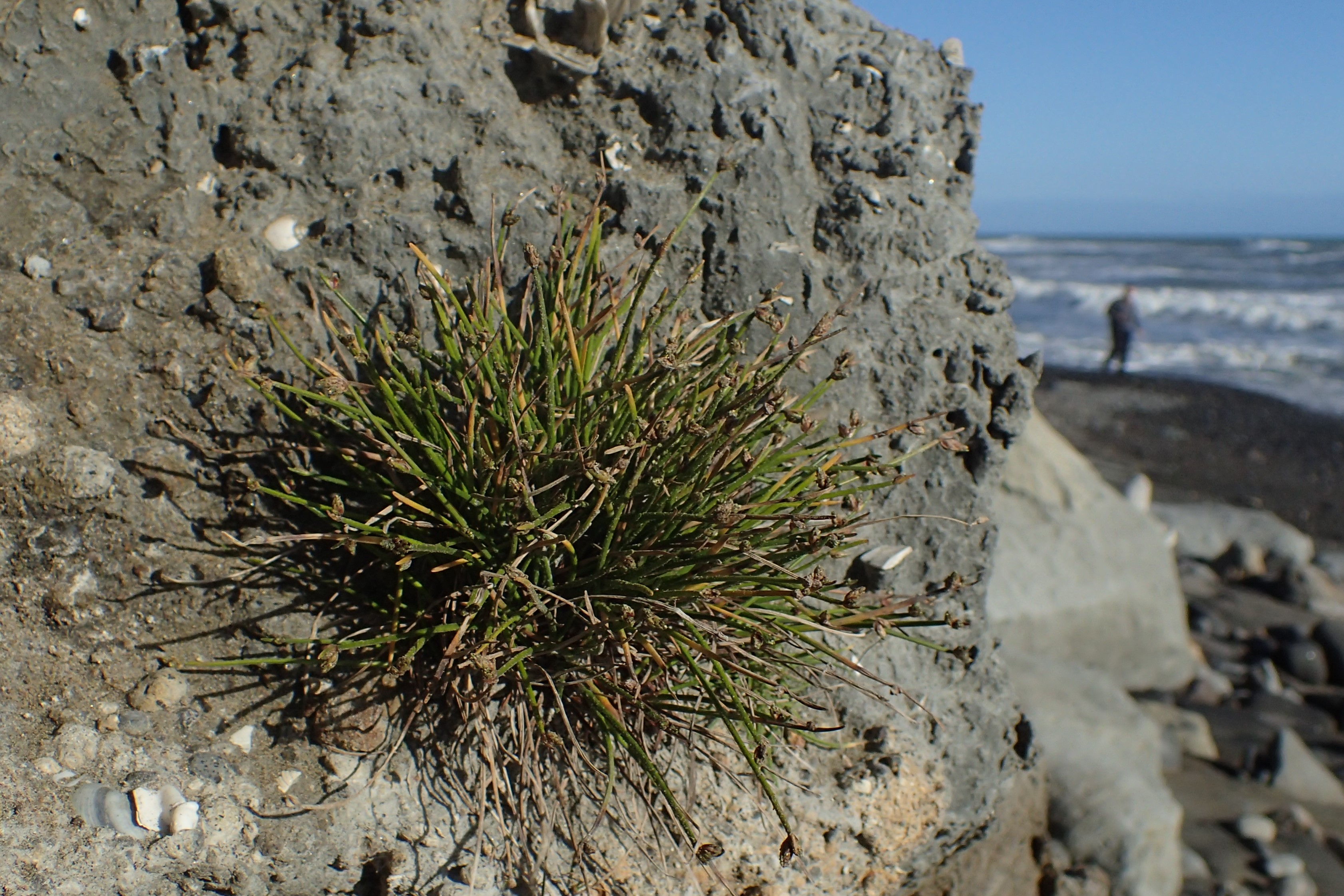 Isolepis cernua in Hawera, Taranaki (New Zealand)